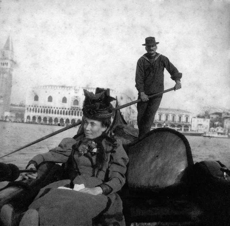 Portrait of Georgette Agutte (1867-1922) in Venice